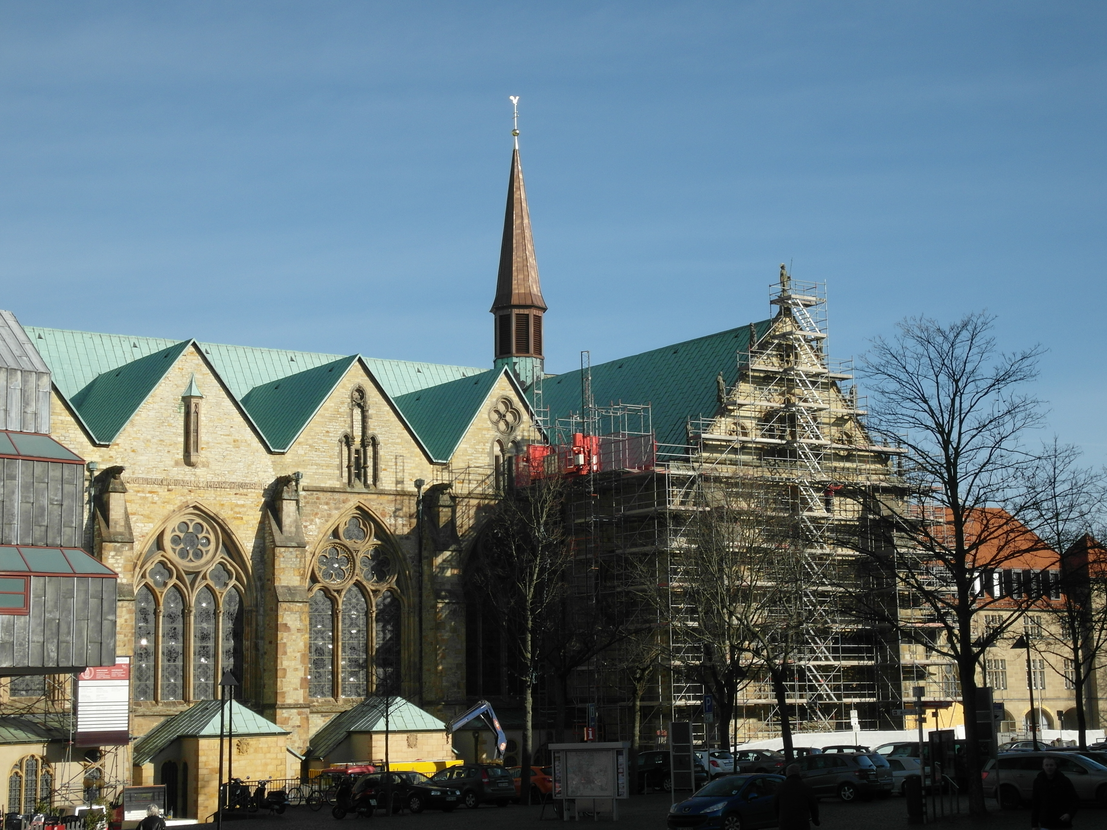 A Tower of Paderborn Cathedral has already the new roof.